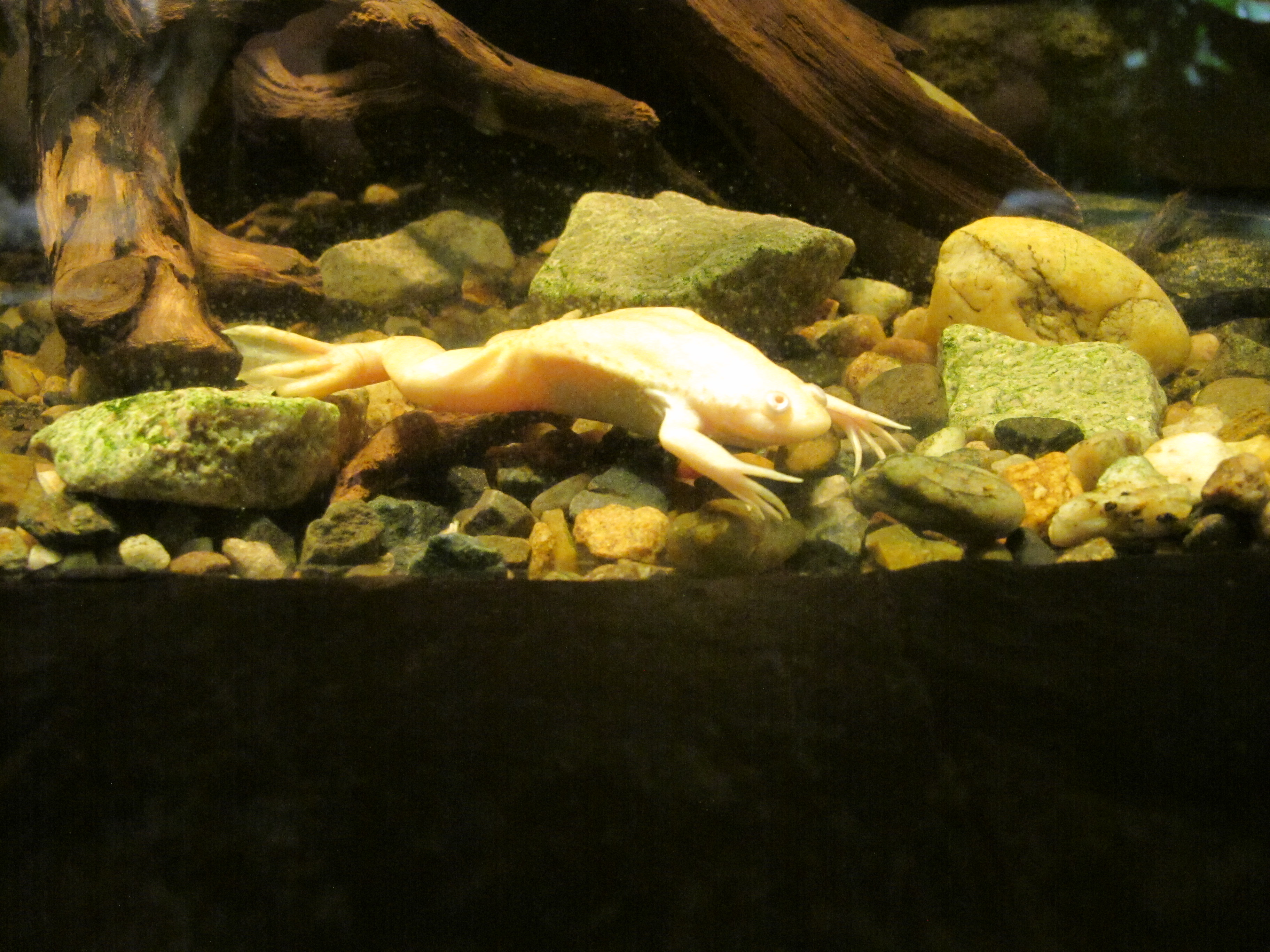 Terrariums in Exotárium House in Ústí nad Labem Zoo.